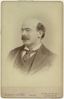 Sir Israel Gollancz, autographed portrait by Elliott & Fry